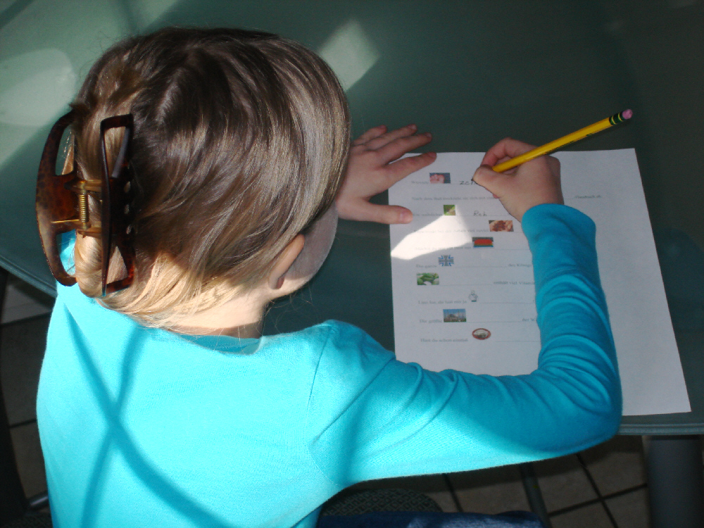 girl, writing